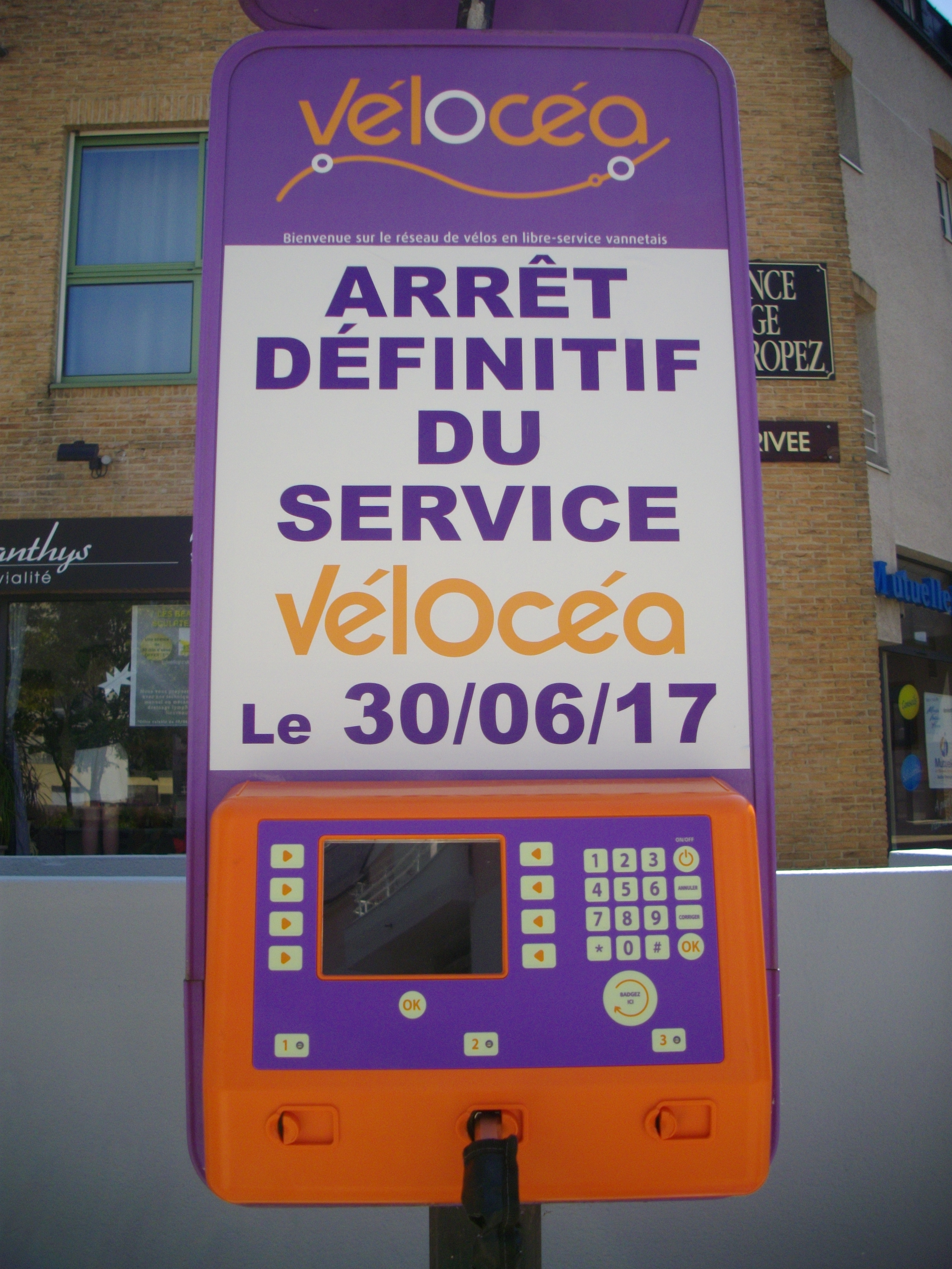 "Bir-Hakeim" Vélocéa station, in Vannes (Morbihan, France)